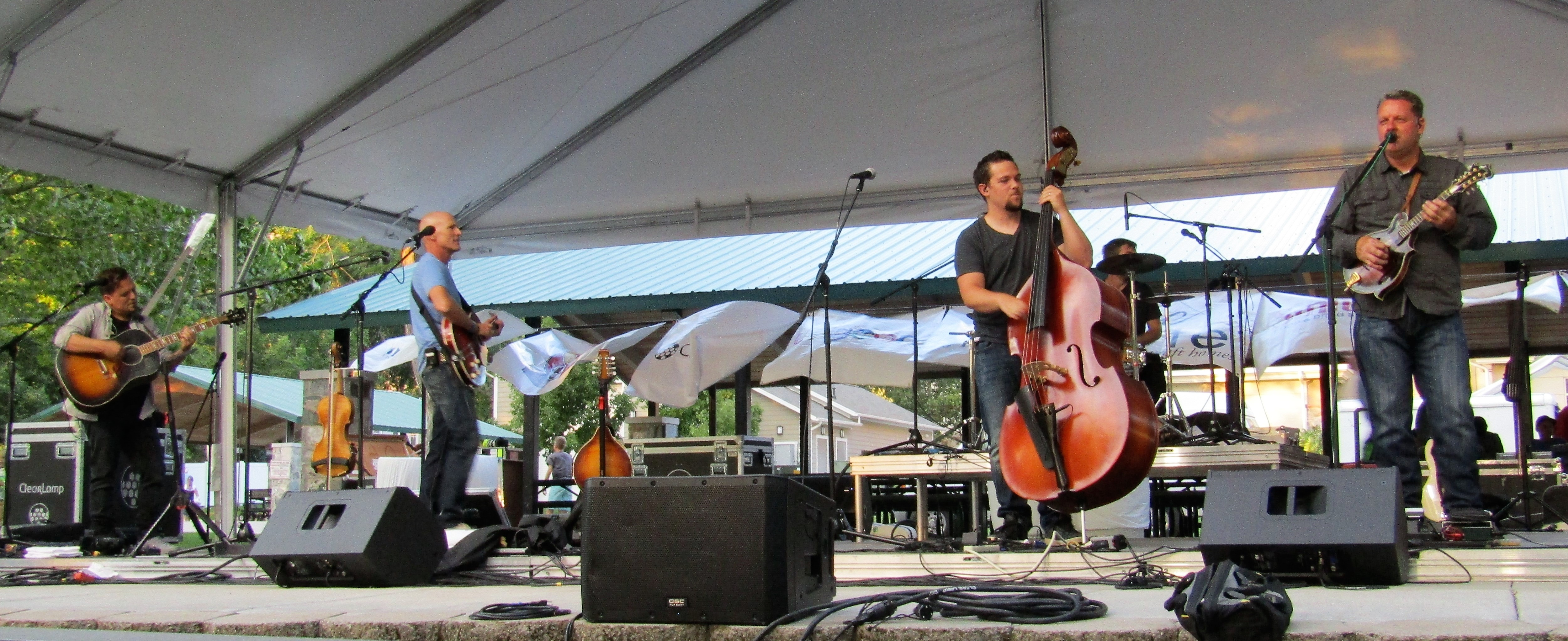 Band performing at Forbush Park as part of Farmington Festival Days.